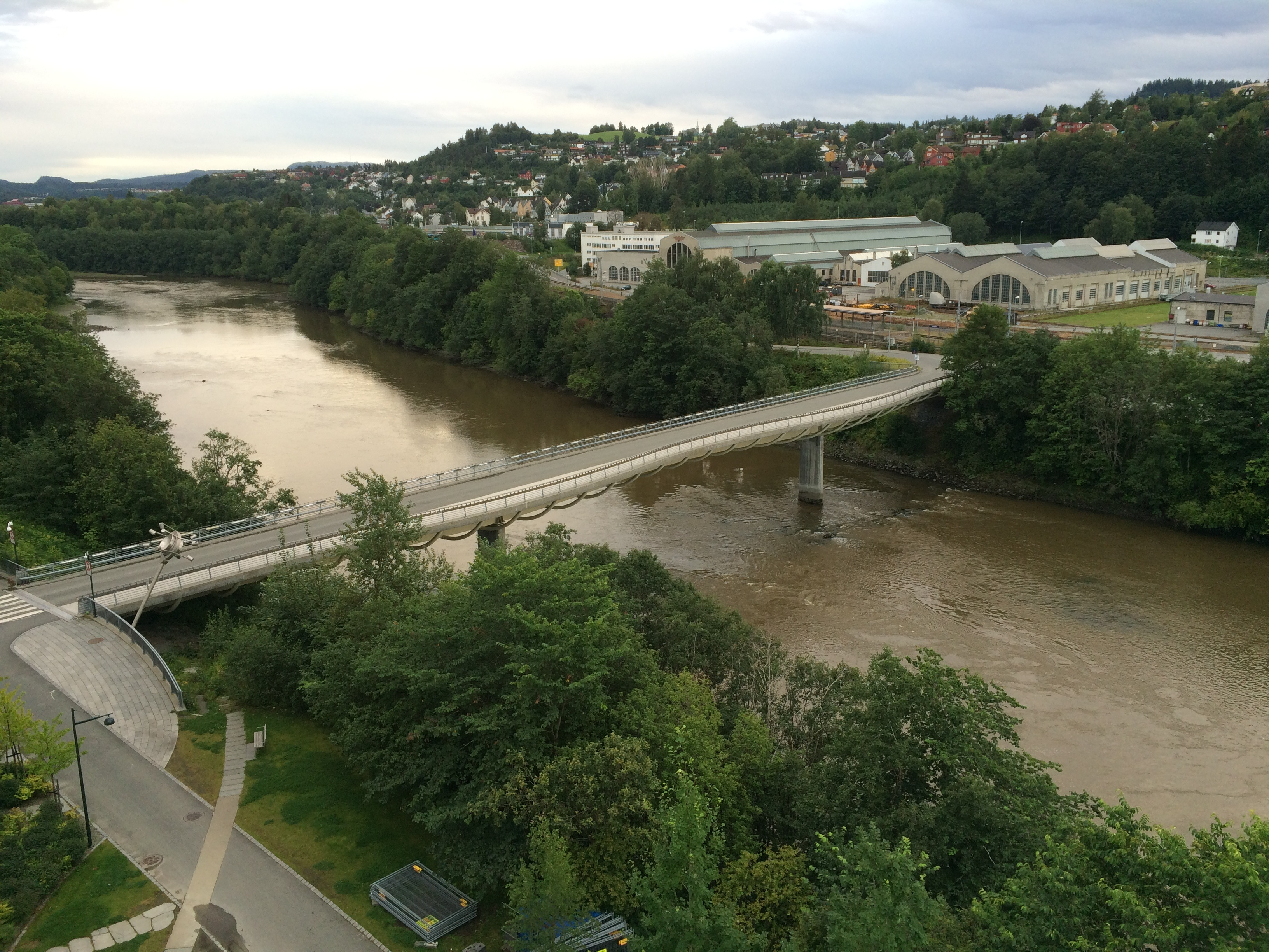 The Cecilie Bridge crossing Nidelva in Trondheim.